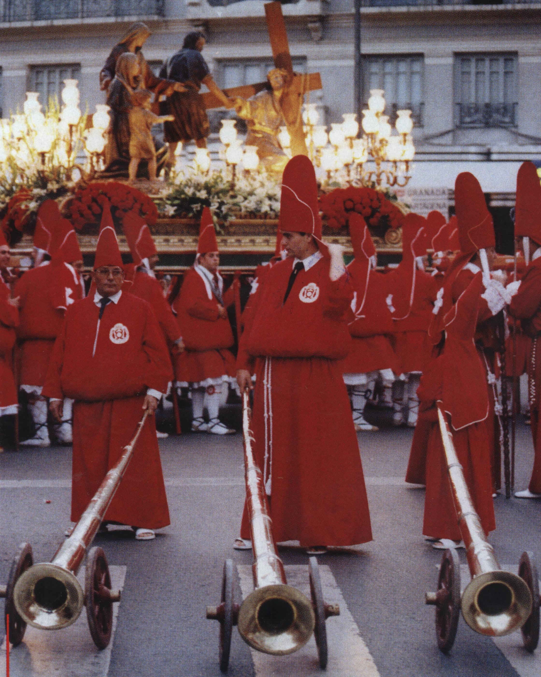 HIJAS DE JERUSALEM. SALIDA IGLESIA DEL CARMEN. ACOMPAÑAMIENTO BURLAS